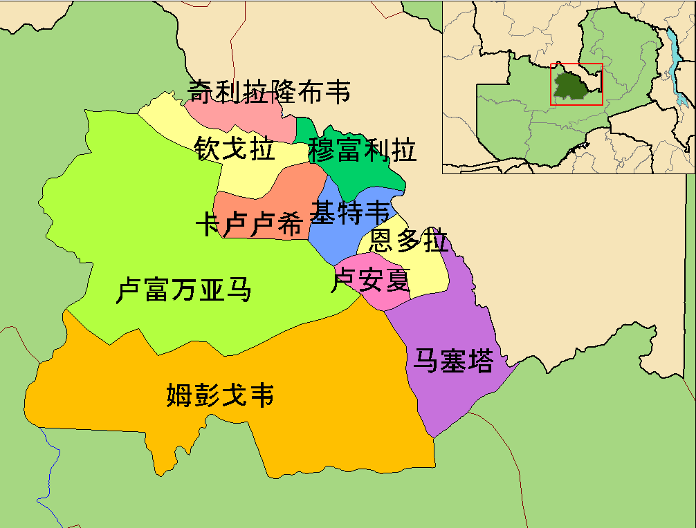 Added Chinese language to map Image:Copperbelt districts.png.